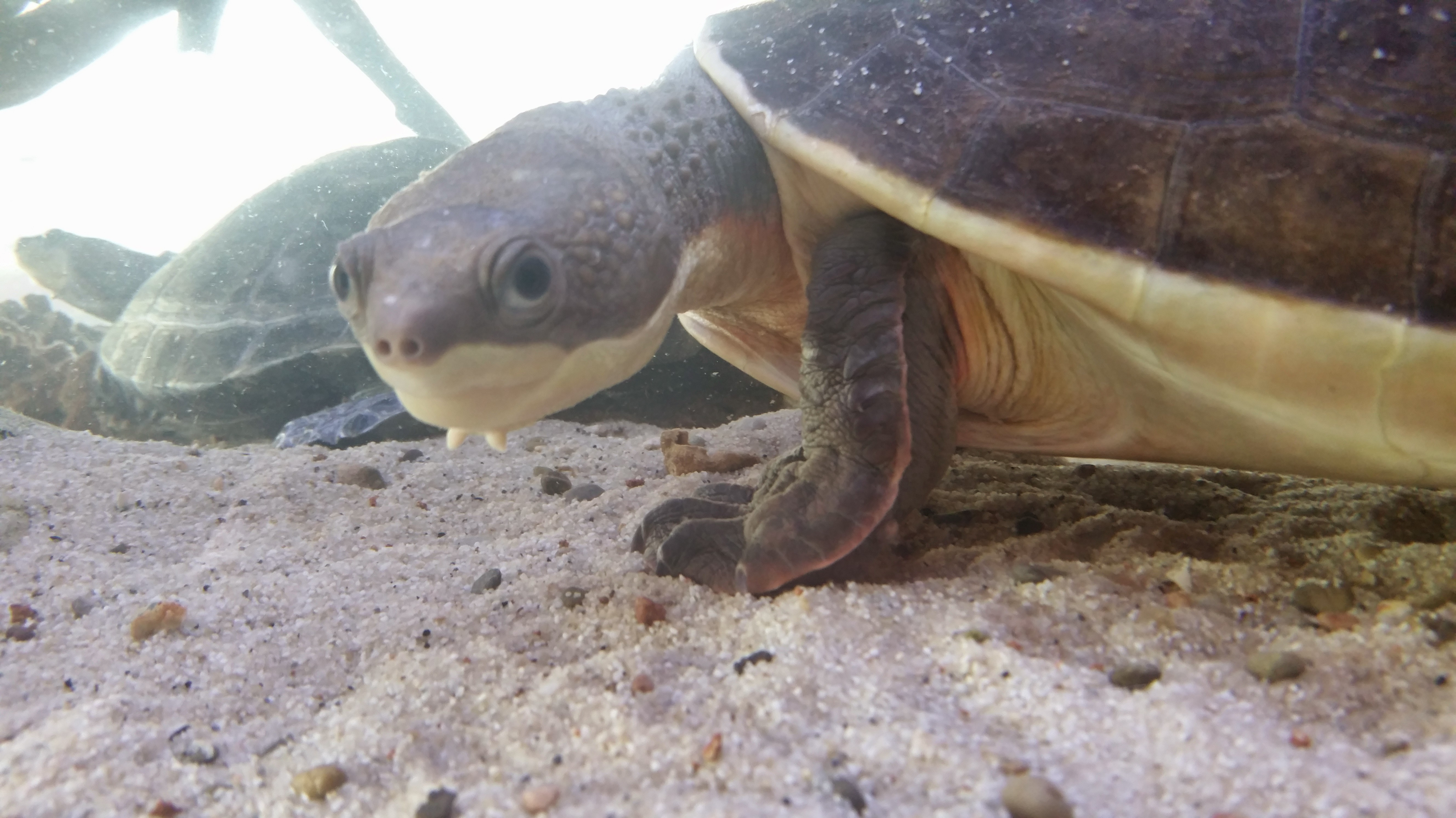 Elseya branderhorsti, 8 years, male